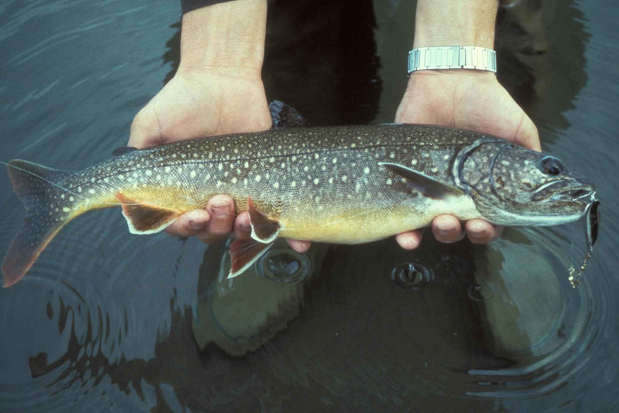 Image title: Lake trout fish in hands salvelinus namaycush Image from Public domain images website